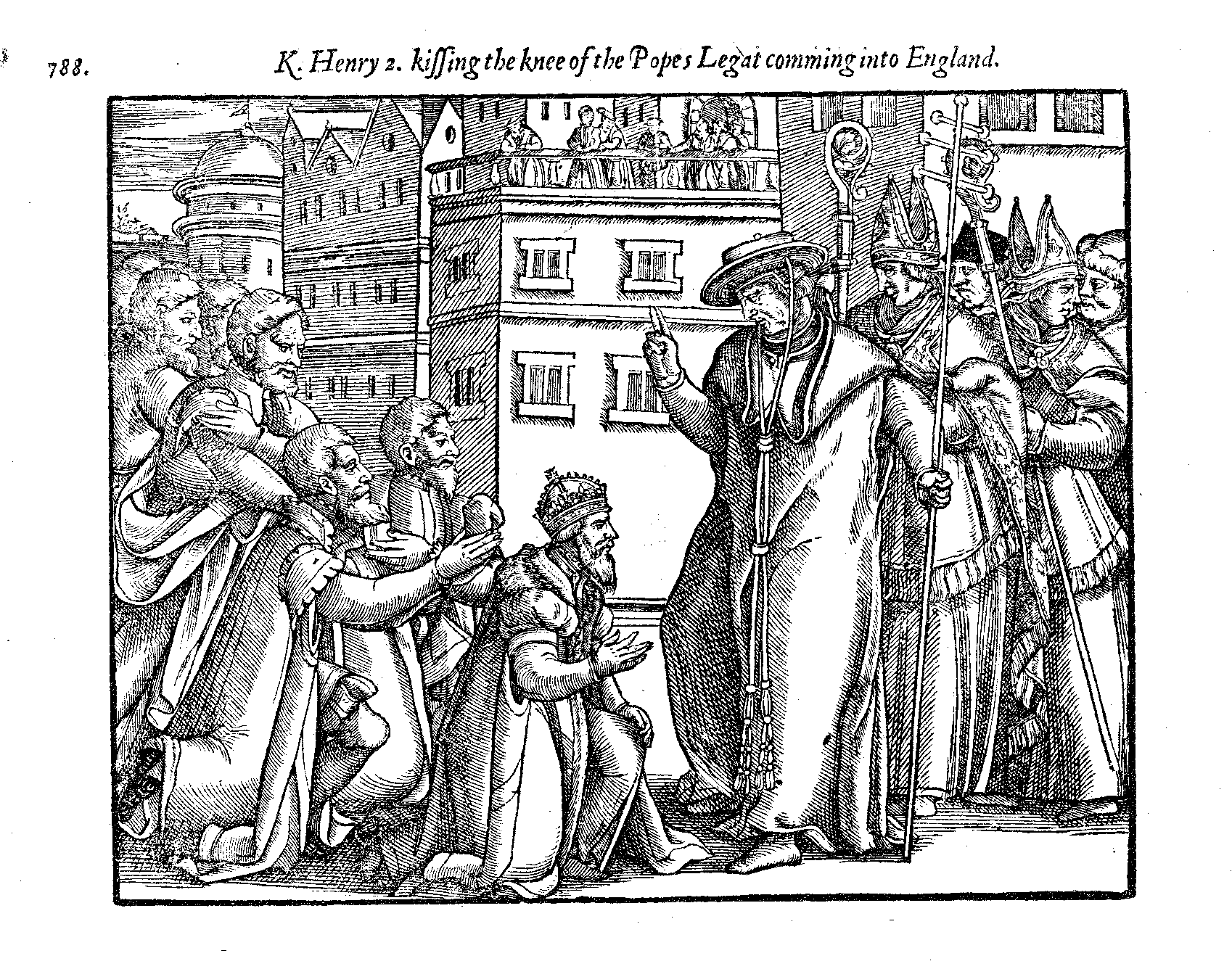 King Henry II Kissing the knee of the Popes Legate coming into England.